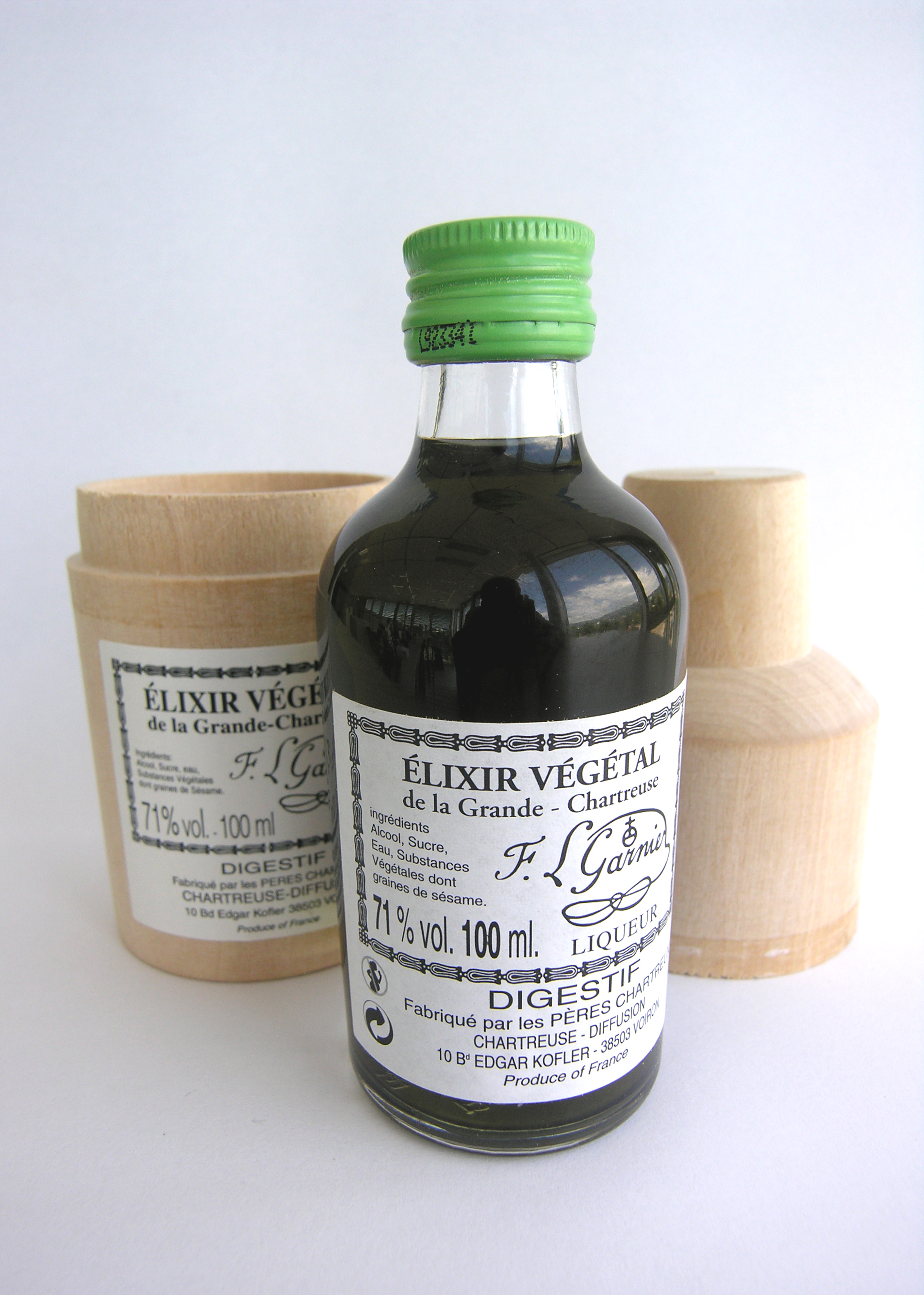 100 ml bottle of Chartreuse Élixir végétal, digestif